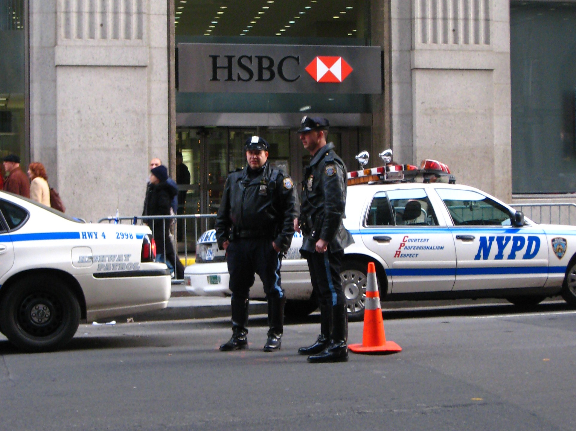 New York City Police, Downtown Manhattan, New York, NY.